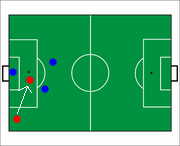 sketch of no offside position